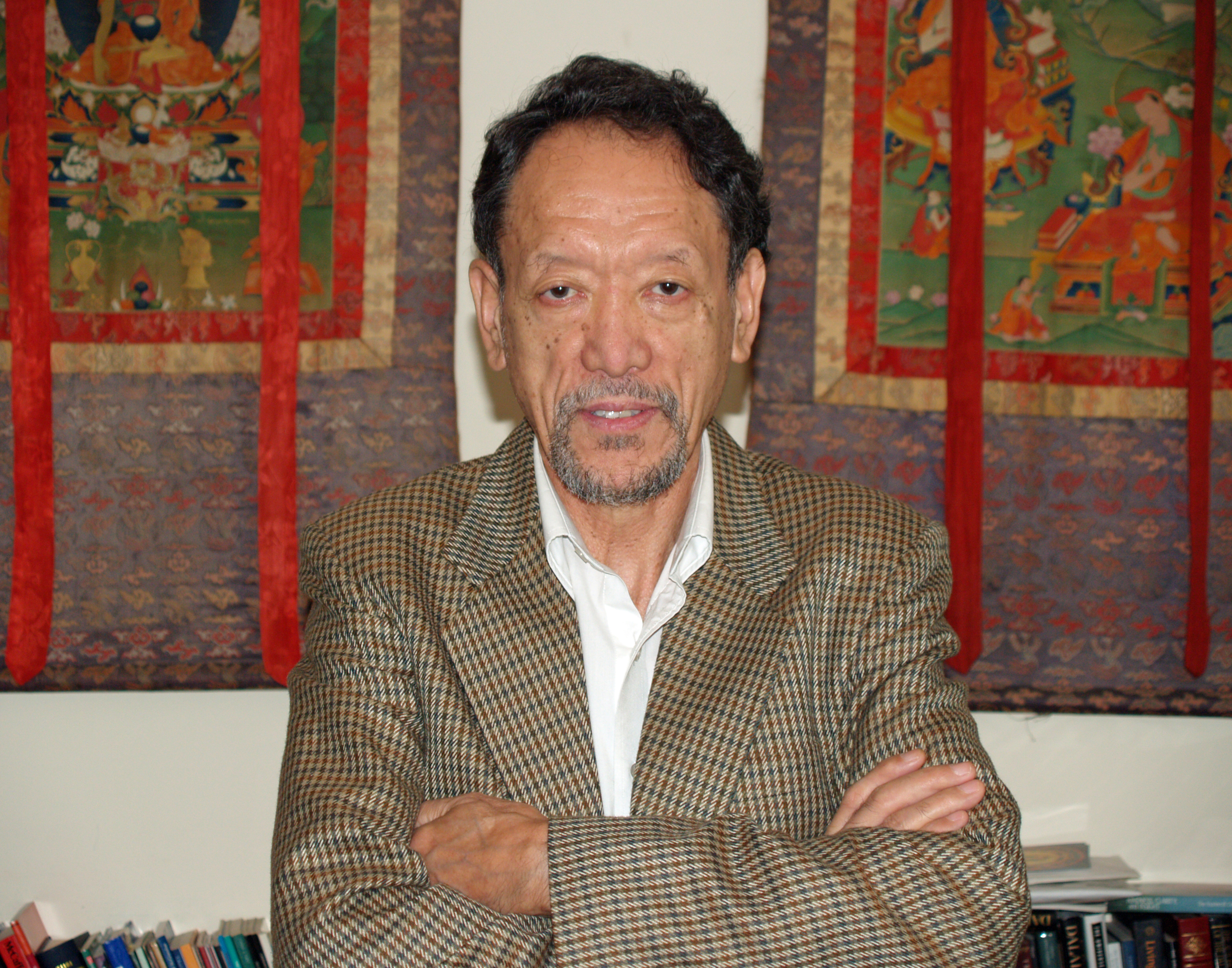 Tashi Wangdi, Representative to the Americas of His Holiness the Dalai Lama